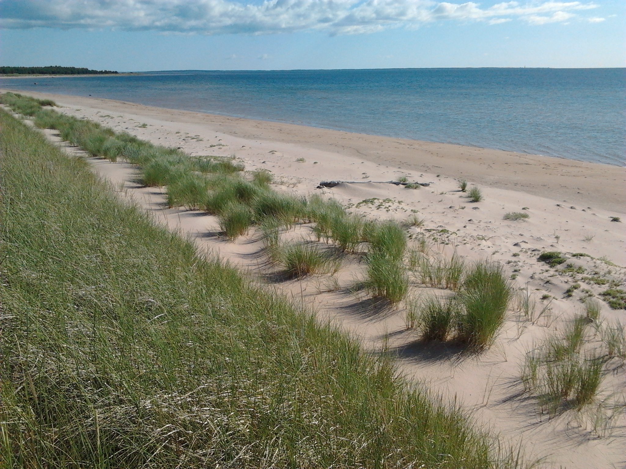 Jõe (Püti) taga mere ääres (laulvad liivad)